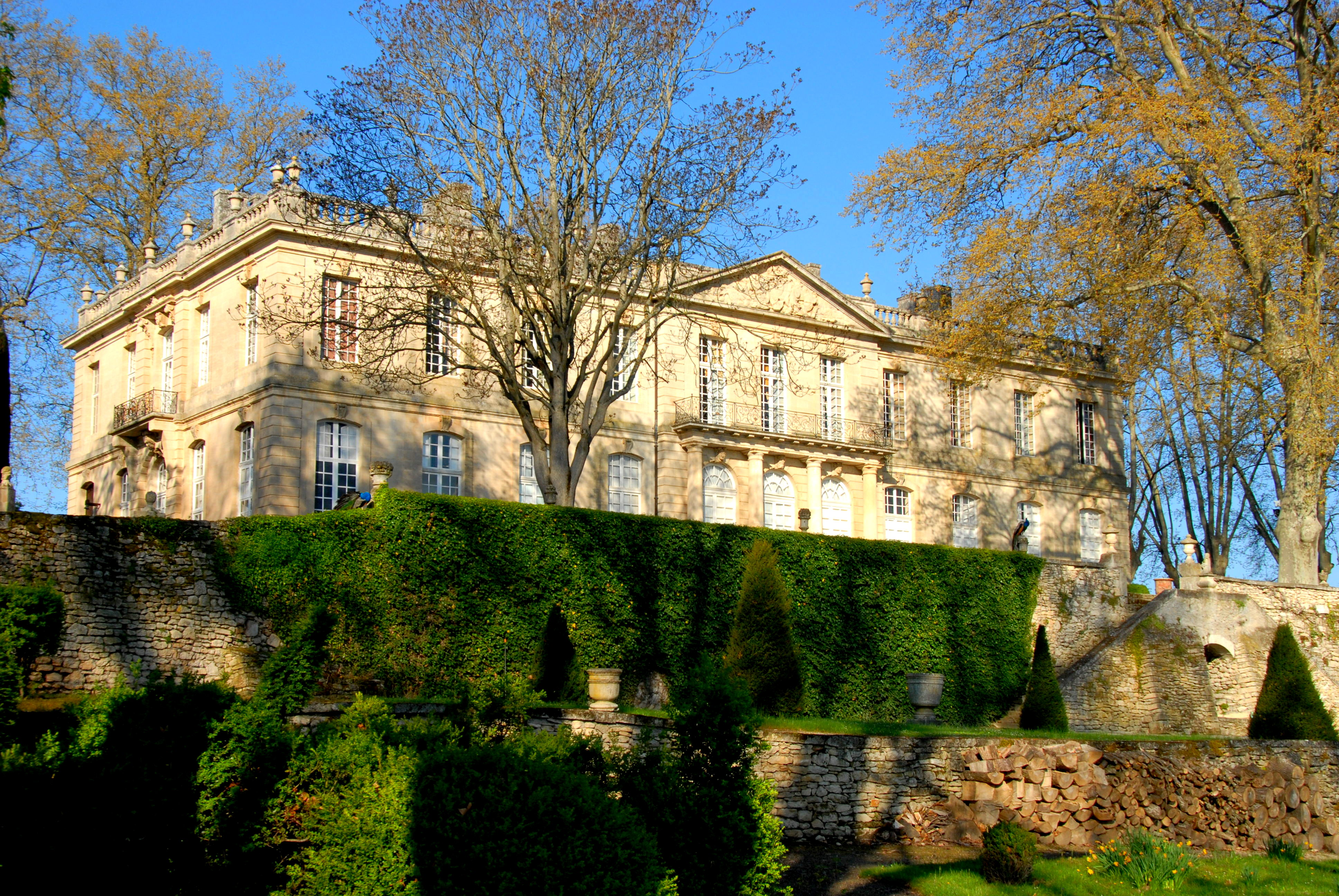 Castle of Sauvan